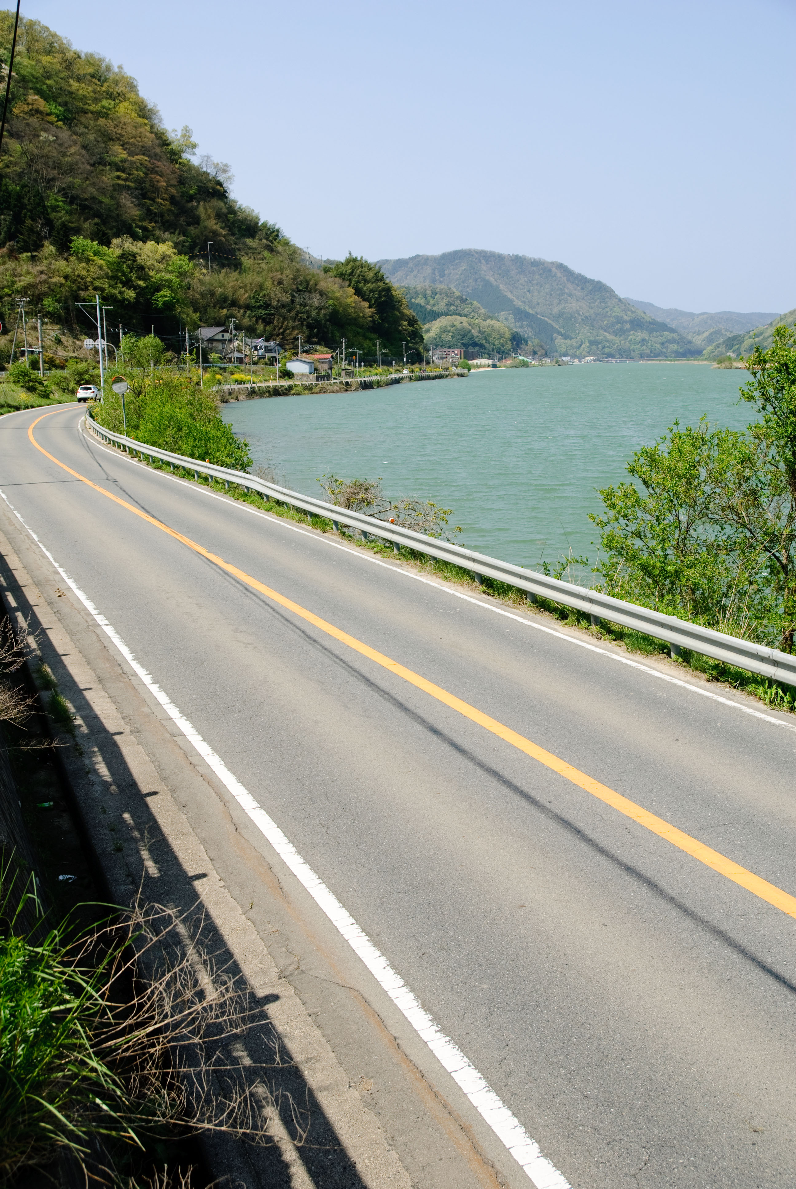 Maruyamagawa River Side Line (Asago - Toyooka - Kinosaki)